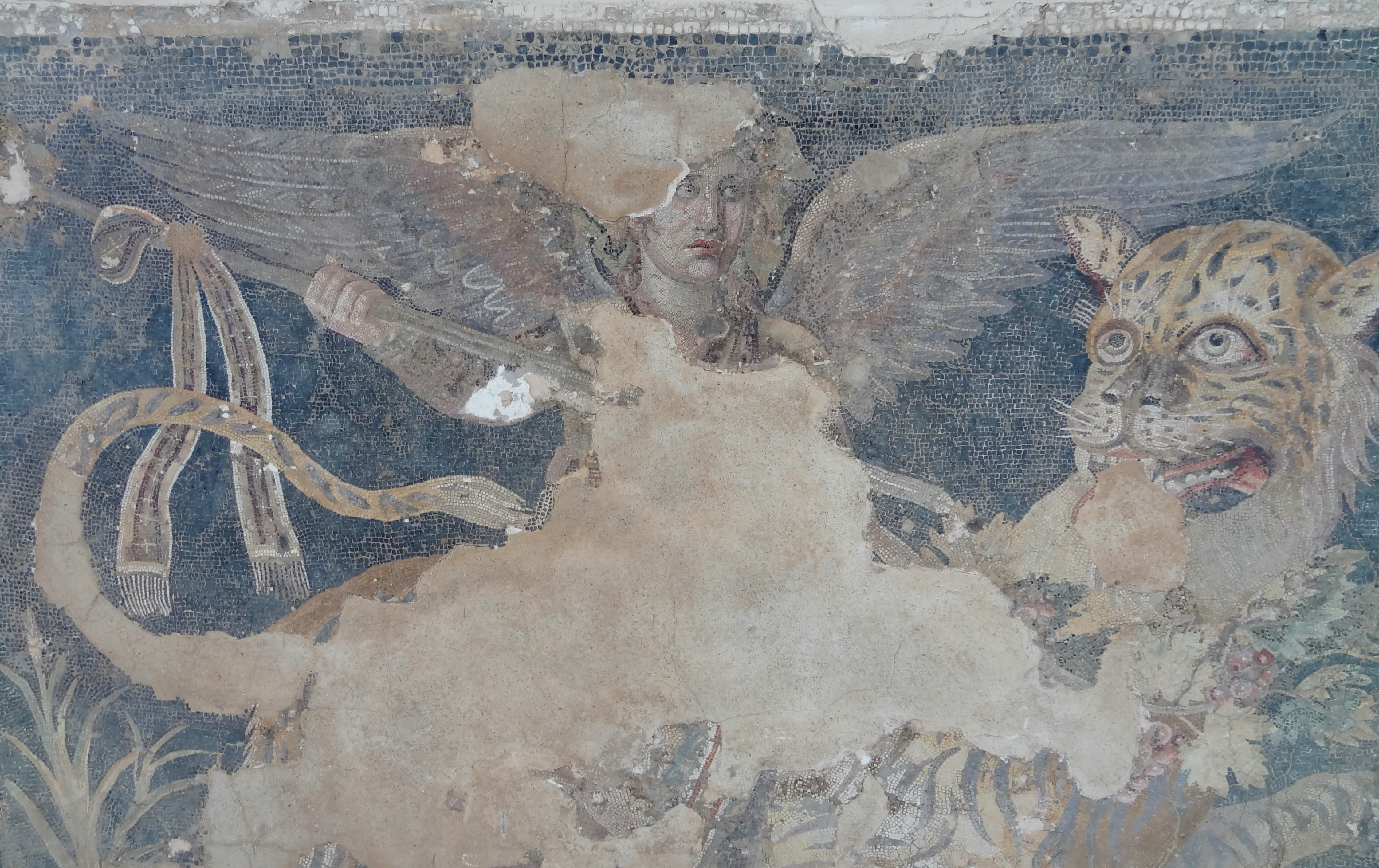 A Hellenistic Greek mosaic depicting the god Dionysos as a winged daimon riding on a tiger, from the House of Dionysos at Delos in the South Aegean region of Greece, late 2nd century BC; sources: * Brecoulaki, Hariclia (2016), “Greek Interior Decoration: Materials and Technology in the Art of Cosmesis and Display”, in Irby, Georgia L., editor, A Companion to Science, Technology, and Medicine in Ancient Greece and Rome (Blackwell Companions to the Ancient World), volume 1, Oxford: Wiley-Blackwell, ISBN 9781118372678, page 678 * Dunbabin, Katherine, M. D. (1999) Mosaics of the Greek and Roman World, Cambridge: Cambridge University Press, ISBN 0521002303, page 32